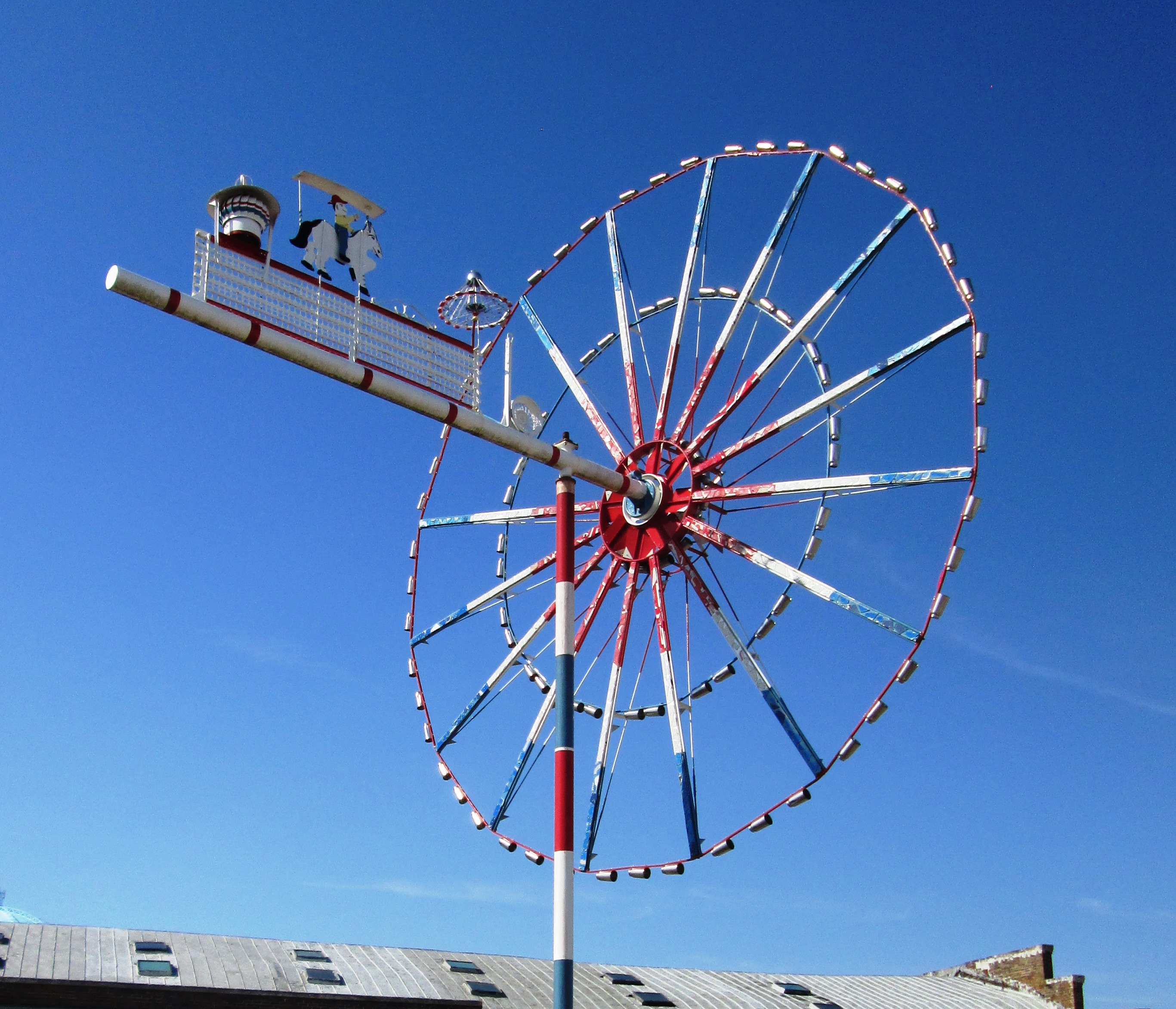 The Vollis Simpson Whirliigig Park on Goldsboro Street S. at Douglas Street S. in Wilson, North Carolina, opened on November 2, 2017 to document, conserve, and display the large whirlgigs from Simpson's property in Lucama, North Carolina. Wilson held its first annual Wilson Whirligig Festival in 2004. It was renamed in 2016 to the North Carolina Whirligig Festival, and is usually held the first full weekend of November. The North Carolina legislature named the whirligig the state's official folk art in June 2013.